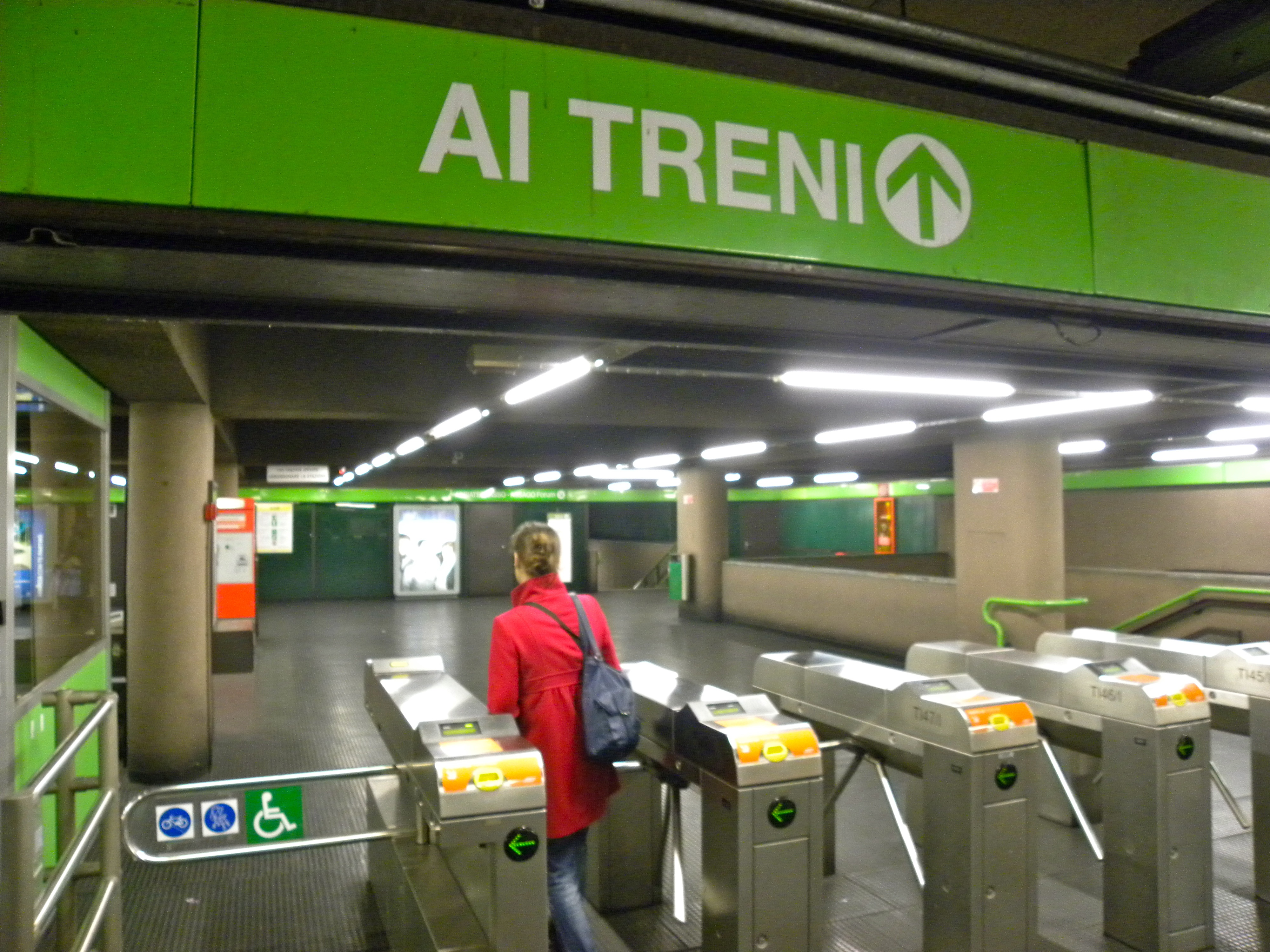 Like everywhere else in the world, except Toronto, the Milan Metro is also fully automated and some of its' lines also feature driverless trains.